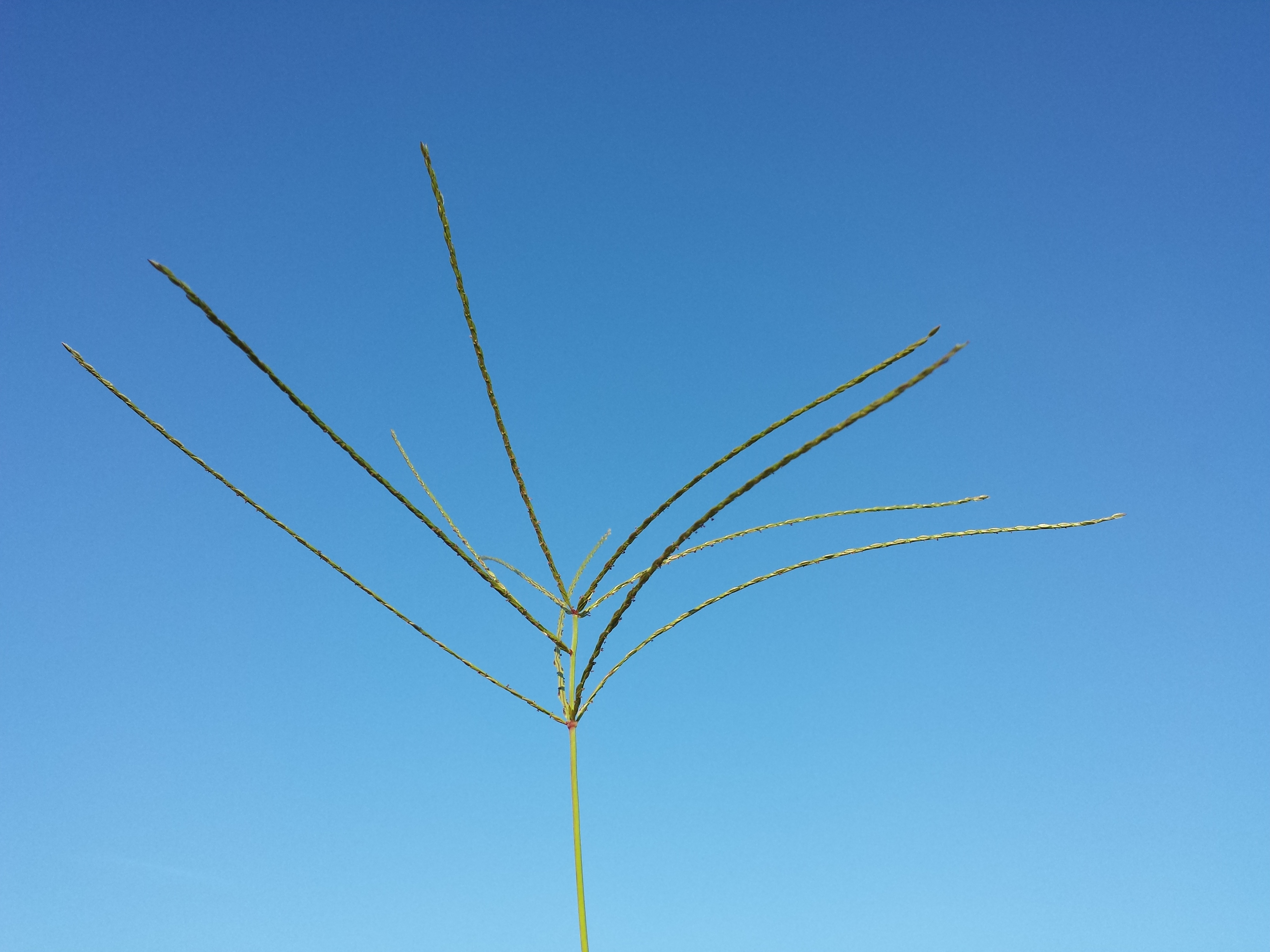 Inflorescence Taxonym: Digitaria sanguinalis subsp. sanguinalis ss Fischer et al. EfÖLS 2008 ISBN 978-3-85474-187-9 Location: Jedlersdorf rail station, Vienna-Floridsdorf - ca. 160 m a.s.l. Habitat: ballast / ruderal area